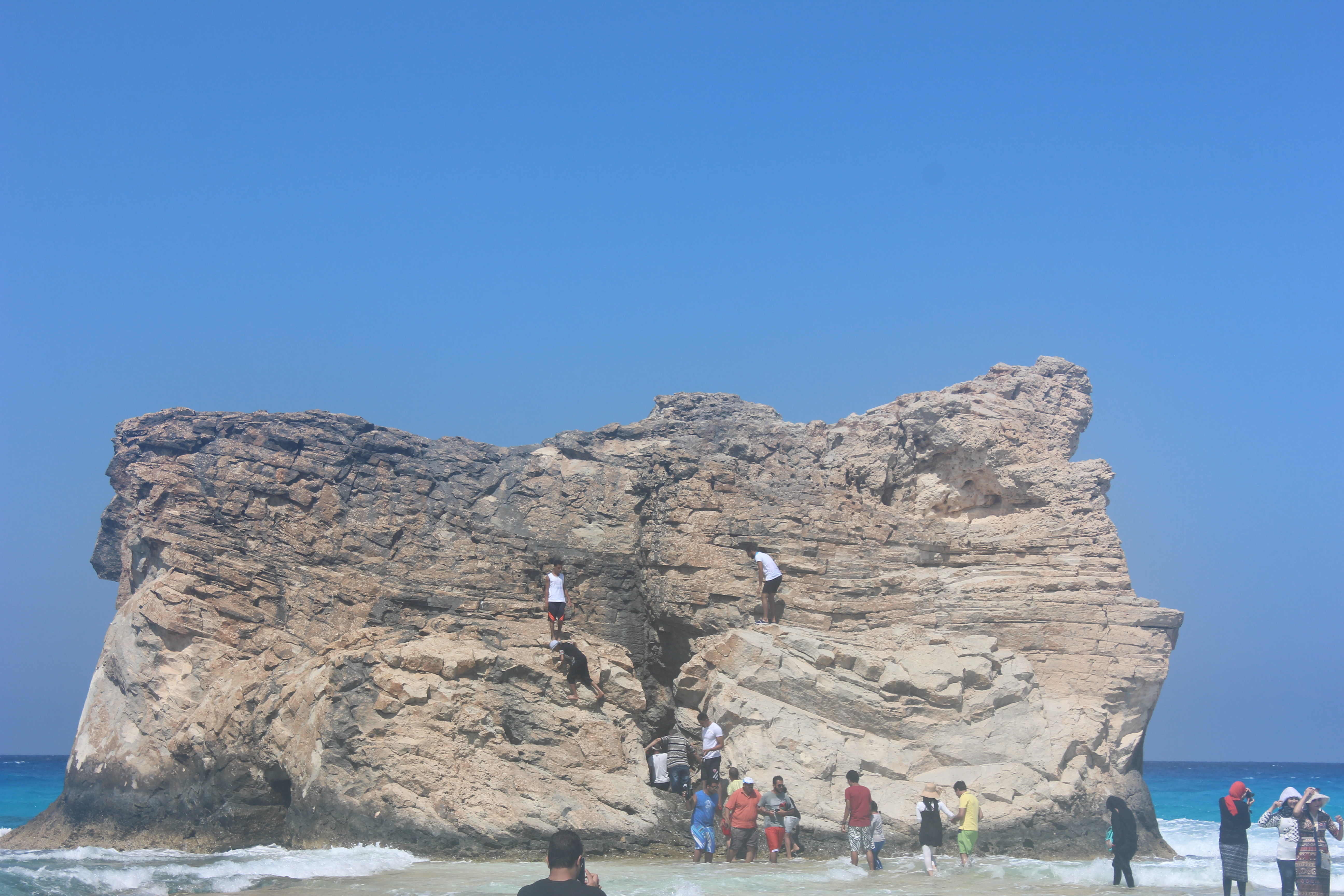 Cleopatra bath and beach, beach west of Marsa Matruh, Egypt.